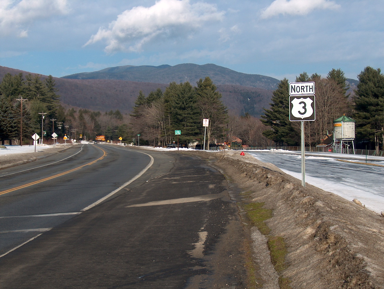 Photo taken by Ken Gallager, January 21, 2006.